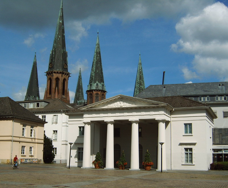 Description: Guardian House and Lamberti-Church in Oldenburg, Germany Date: June 2005 Photographer: Marvins21